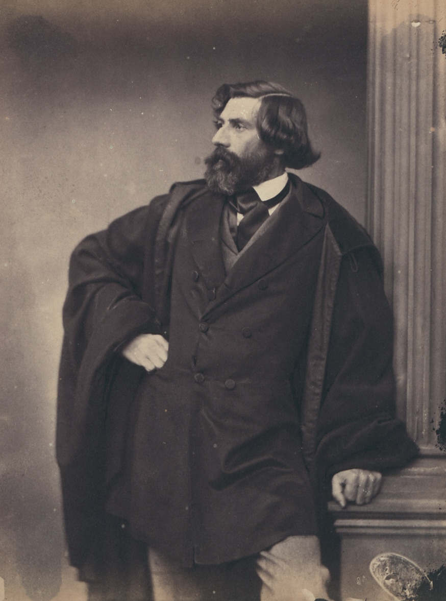 Ludwig Lange (1808-1868). Salt print from collodion glass negative. 21 x 16 cm.